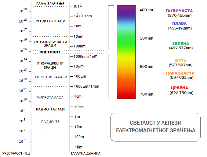 СВЕТЛОСТ КАО ДЕО ЕЛЕКТРОМАГНЕТНОГ ЗРАЧЕЊА